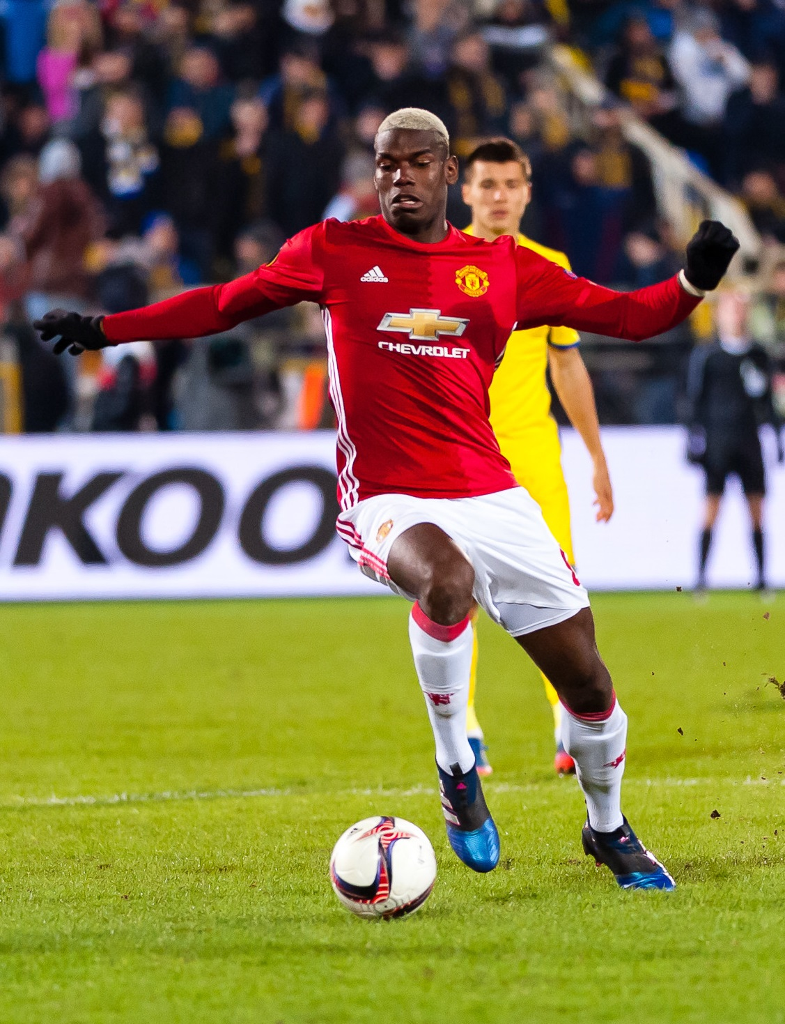 Manchester United footballer Paul Pogba in 2017 UEFA Europa league match in Rostov, Russia.